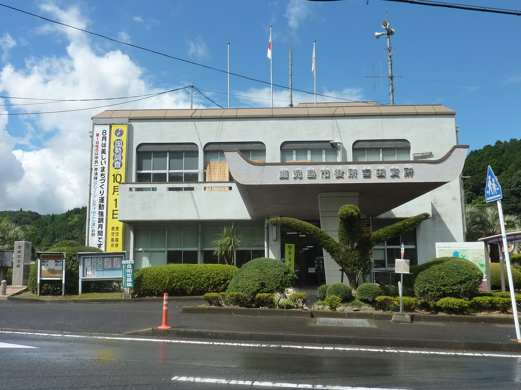 Kagoshima City Office Yoshida Branch (Former Yoshida Town Office - August, 2010)